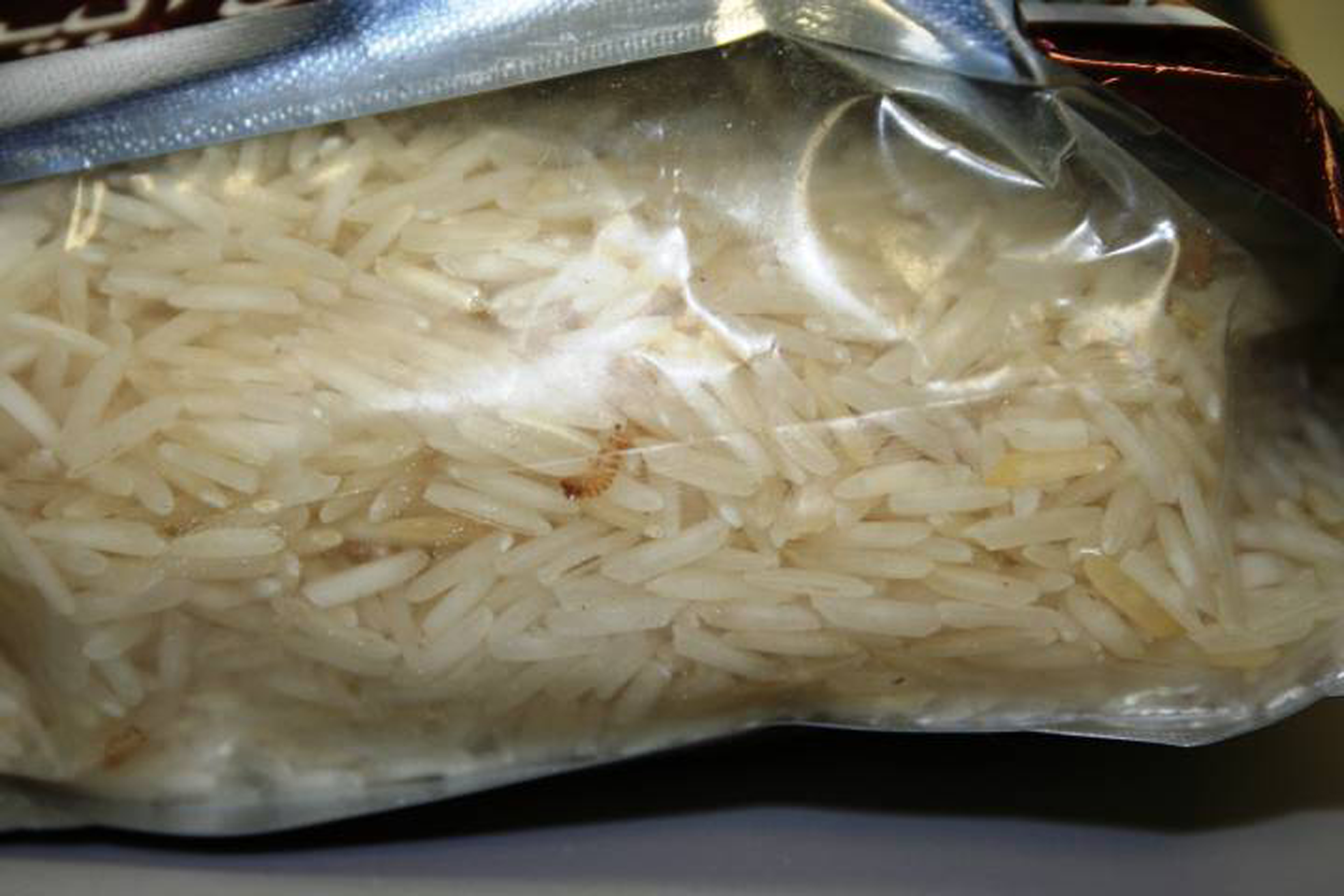 Khapra beetle (Trogoderma granarium) in a bag of rice confiscated by the US Customs and Border Protection.